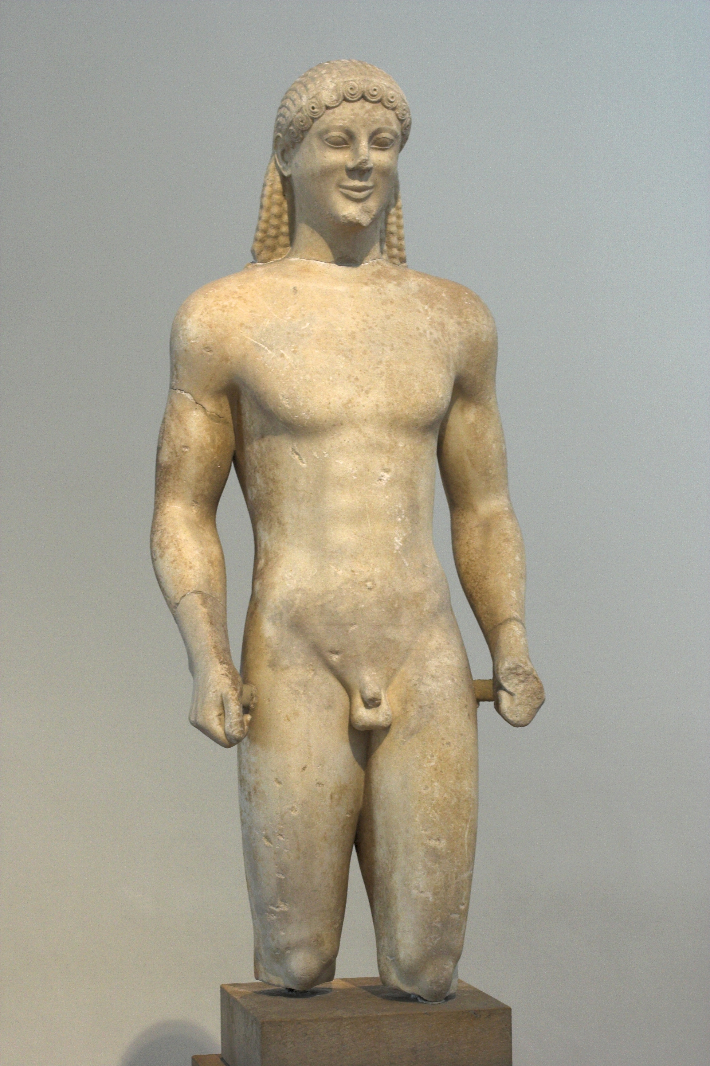 Kouros, islandic marble, around 520 BC. The discovery of the shrine in Ptóon in Boeotia. National Archaeological Museum of Athens N 12, N 2005.